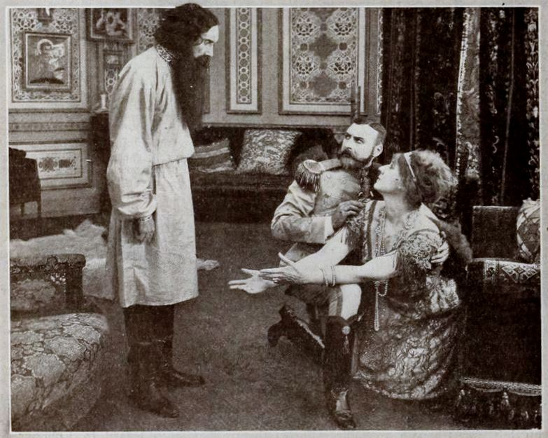 Still from the American film The Fall of the Romanoffs (1917) with Edward Connelly, Alfred Hickman, and Nance O'Neil, on page 14 of the October 13, 1917 Exhibitors Herald.